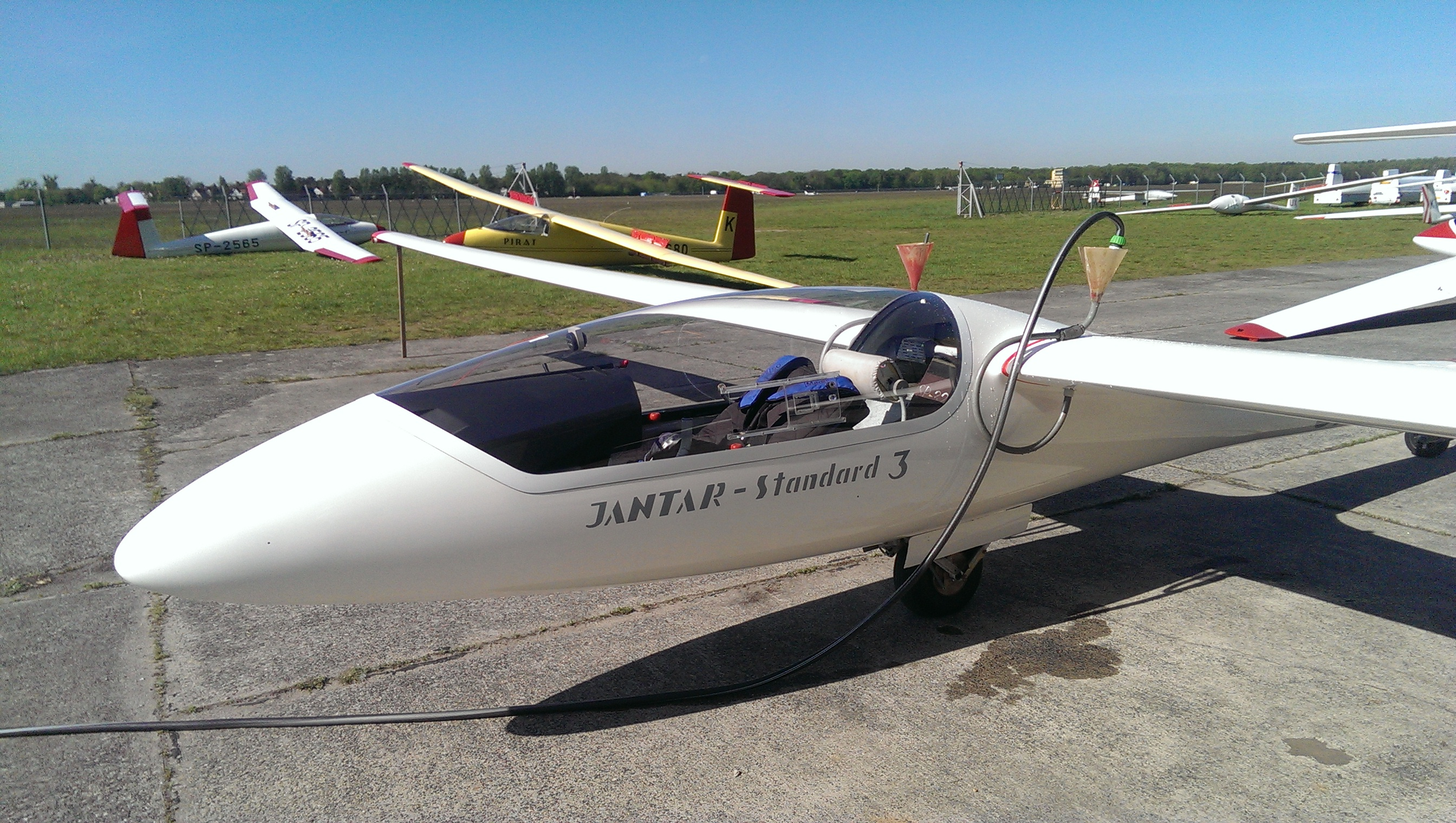 Filling water ballast tanks in a Jantar Standard 3 glider.